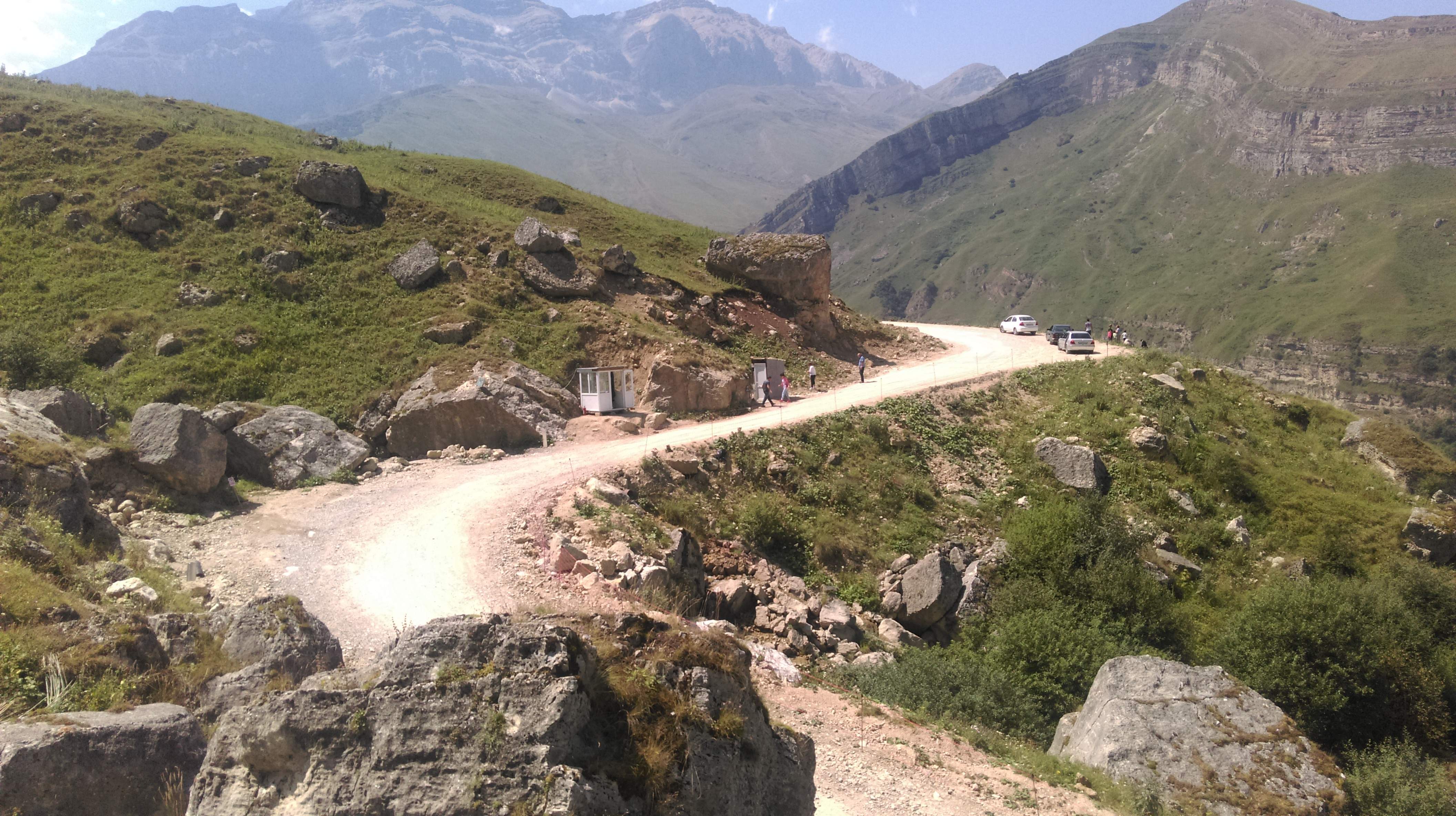 Qusar, Azerbaijan. قوسار